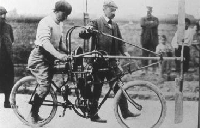 Aéromotocyclette, made by Ernest Archdeacon, in 1906. 6 HP engine, 1.50m propeller, 70 kg, 79 km/h